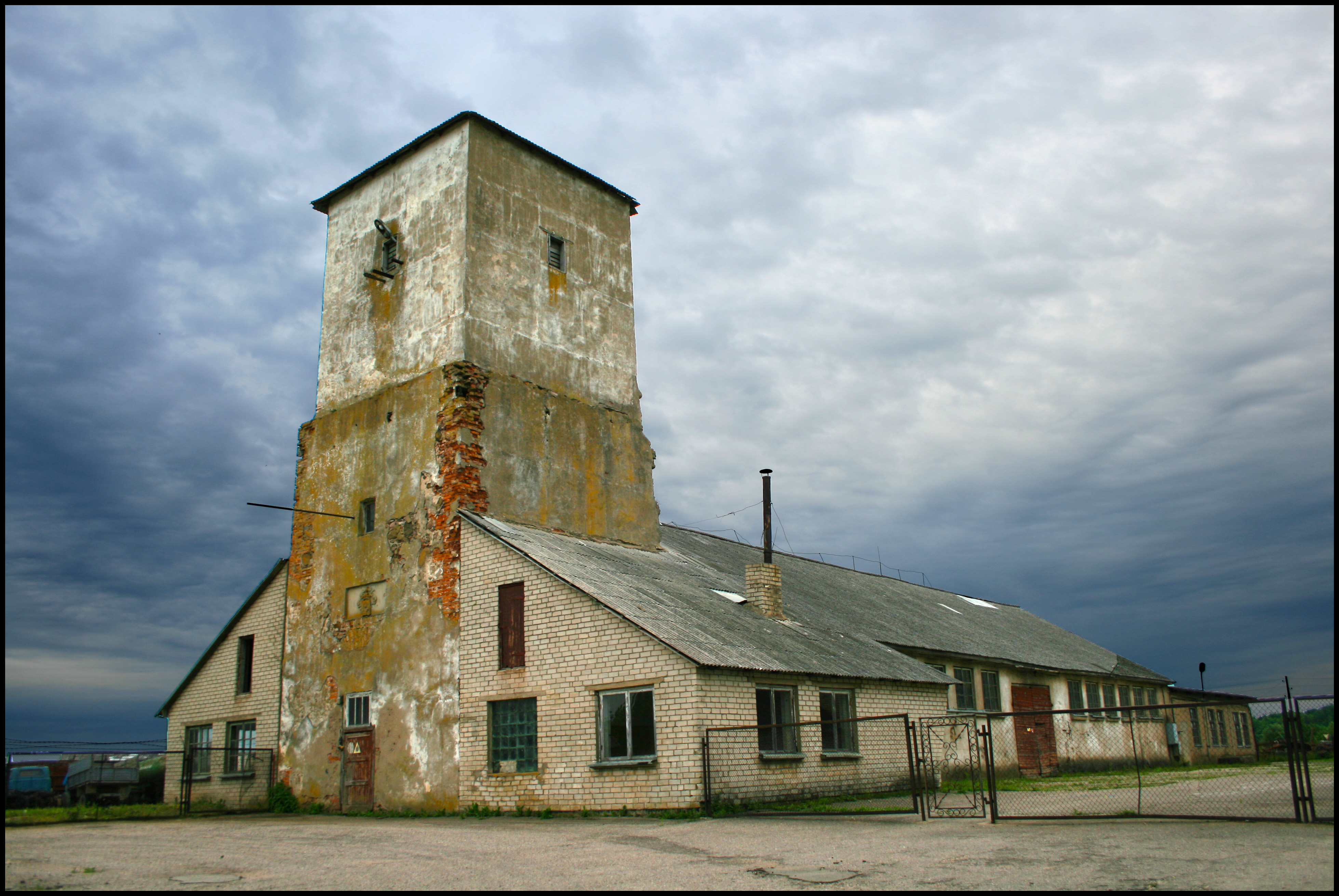 The new image of Pampali church